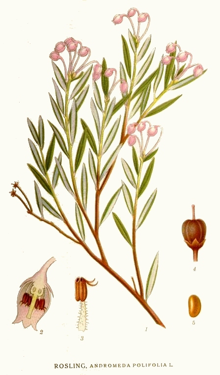 Original Description Rosling, Andromeda polifolia L.